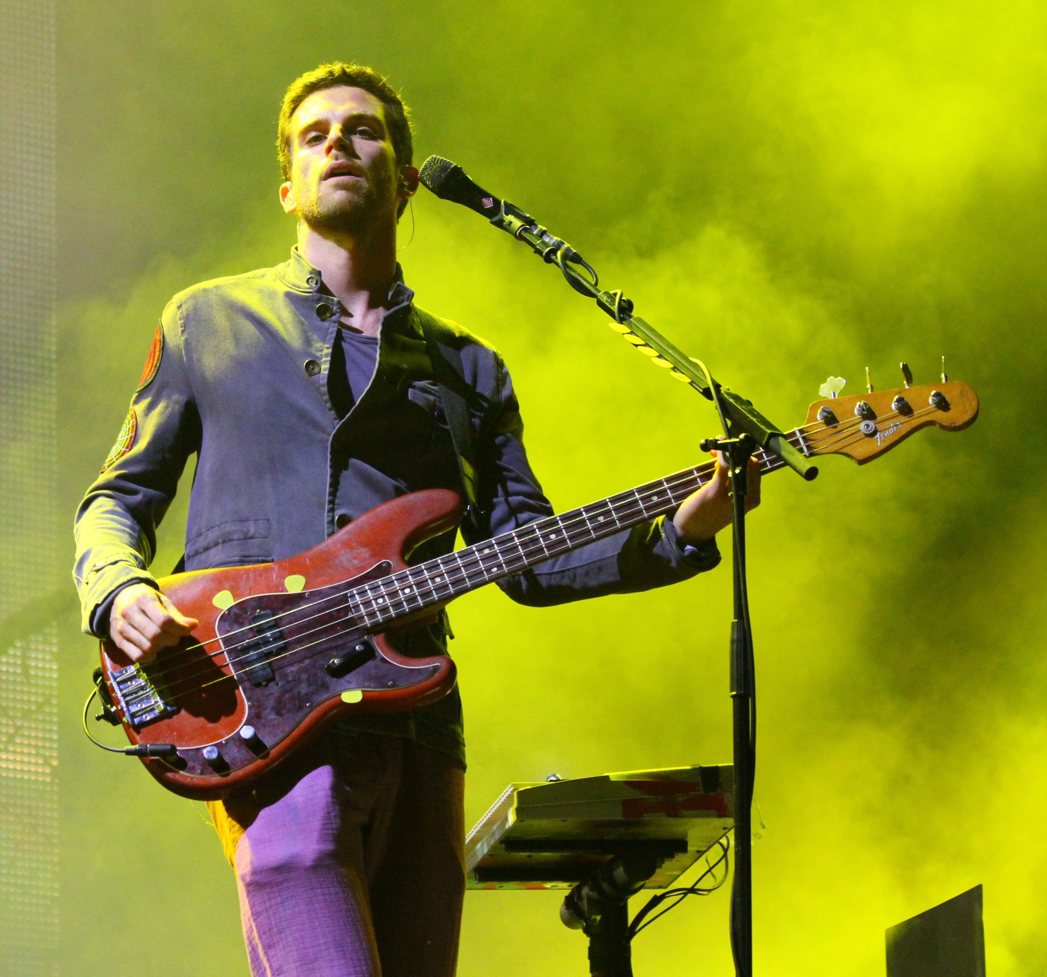 Guy Berryman, performing with Coldplay, at the Naeba Ski Resort, Niigata, Japan, as part of the 2011 Fuji Rock Festival.